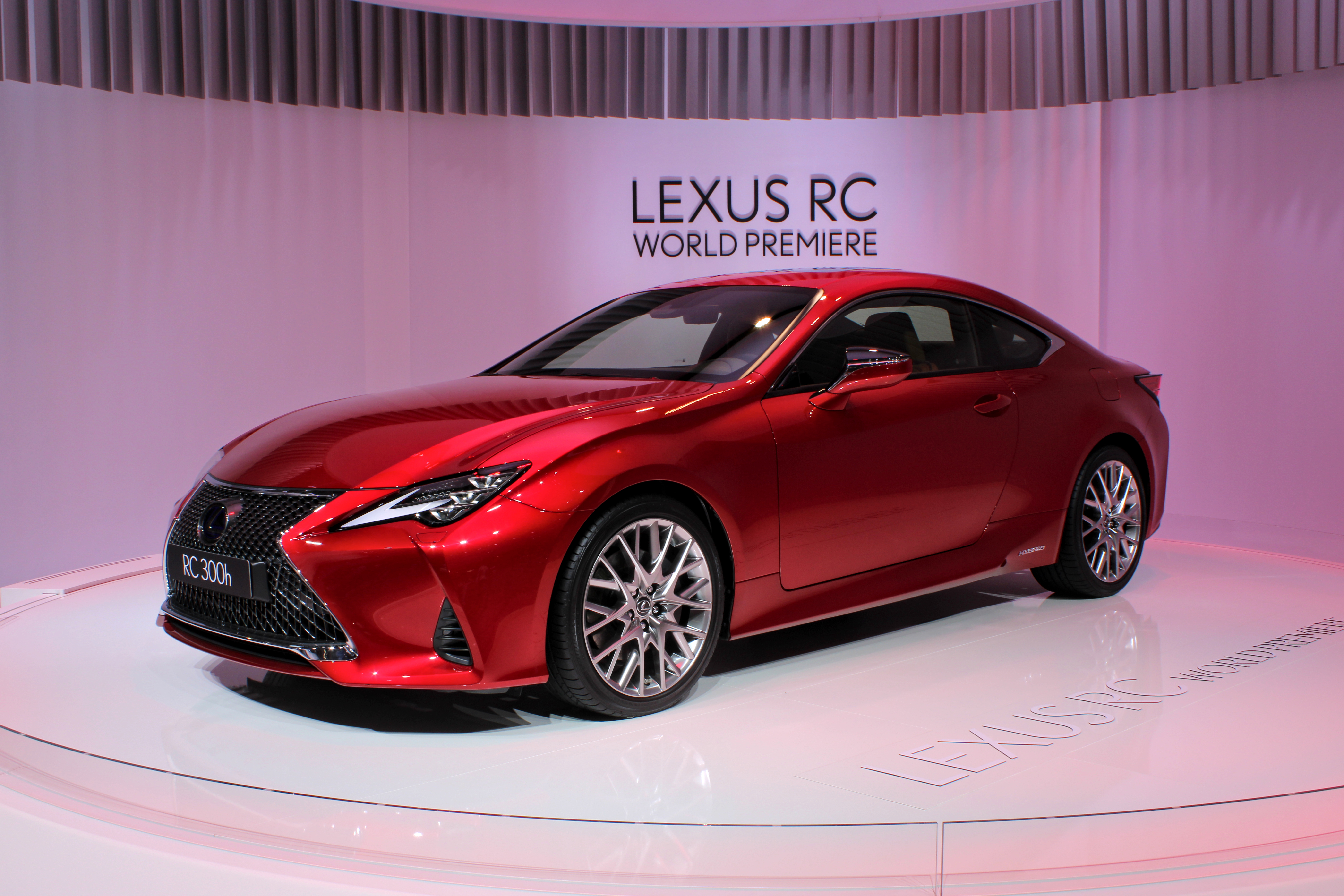 Lexus RC 300h at Paris Motor Show 2018